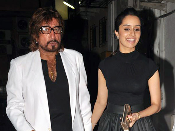 Shraddha Kapoor celebrates the anniversary of Padmini Kolhapure